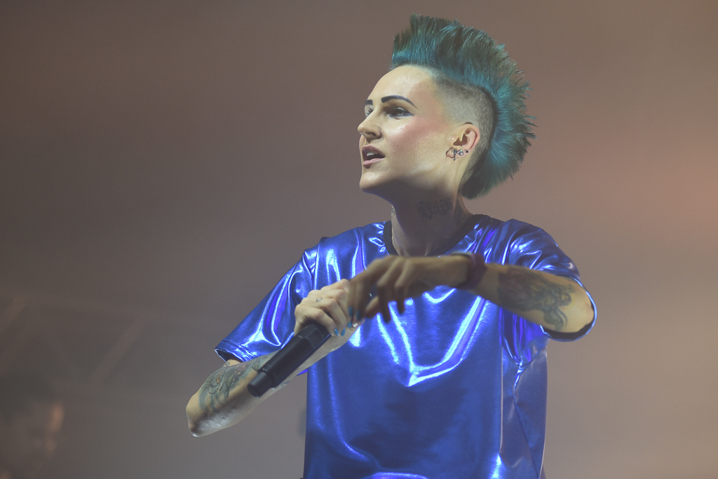 Agnieszka Chylinska, polish vocalist. Concert in Bielsko-Biala